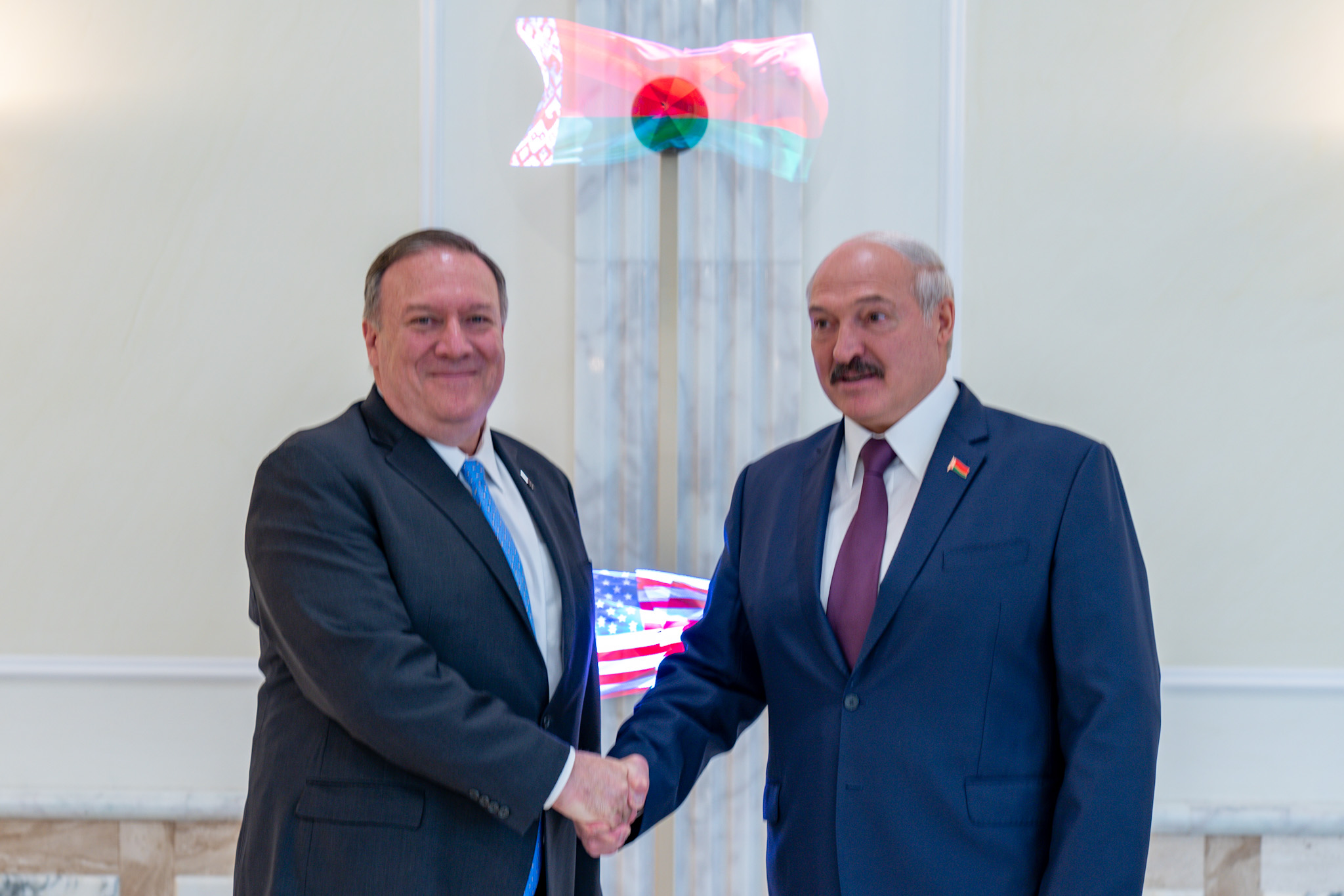 U.S. Secretary of State Michael R. Pompeo meets with Belarusian President Alexander Lukashenko in Minsk, Belarus, on February 1, 2020. [State Department Photo by Ron Przysucha/ Public Domain]